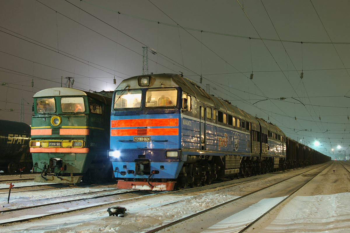 Diesel locomotives 2TE116-503 and 2TE116U-0024 on train station Likhaya.